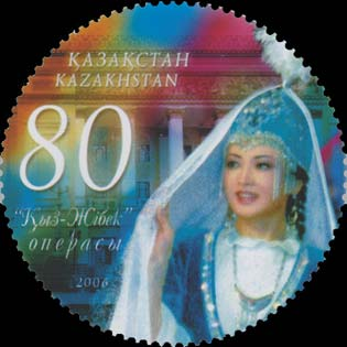 Stamp of Kazakhstan